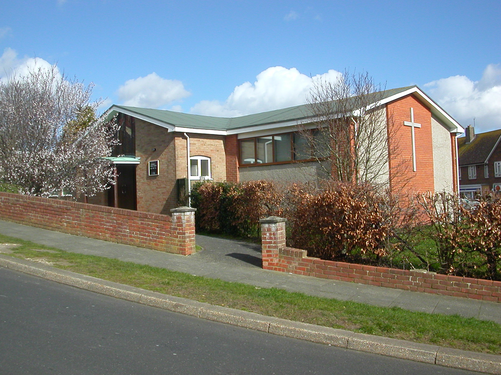 St Patrick's Roman Catholic Church, Woodingdean, City of Brighton and Hove, England. A modern brick building.